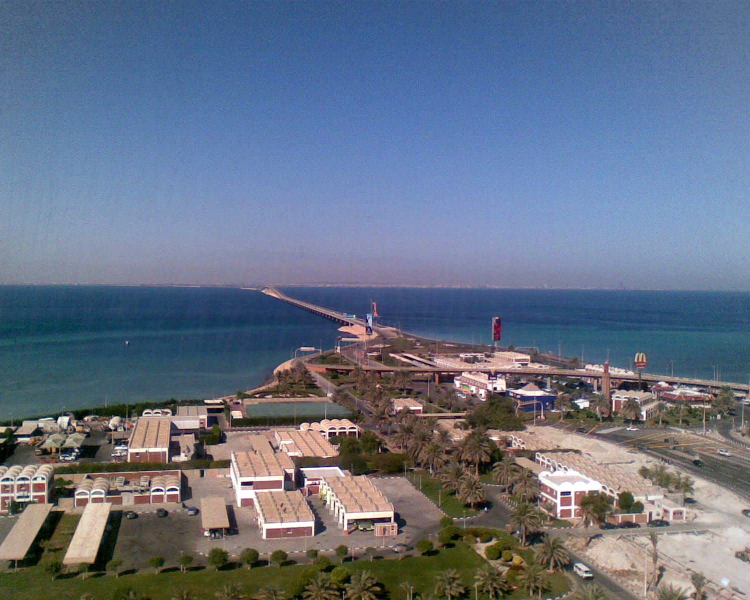 Looking back along the causeway to the Saudi coast, from the viewing tower at the Saudi-Bahrain border.